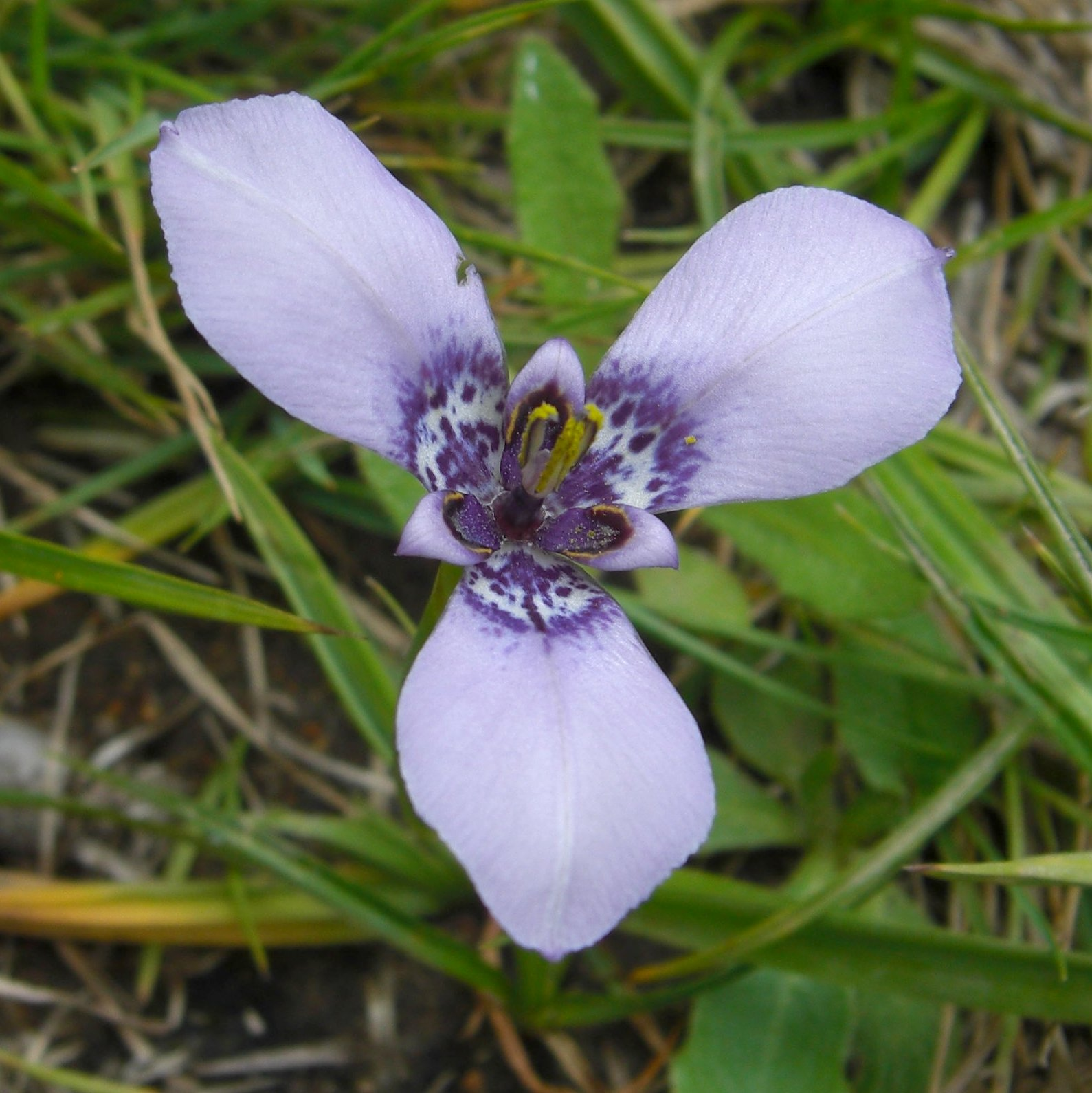 Herbertia lahue (Mol.) Goldbl. – 20081129.20 – coastal Chile, south of Pichilemu